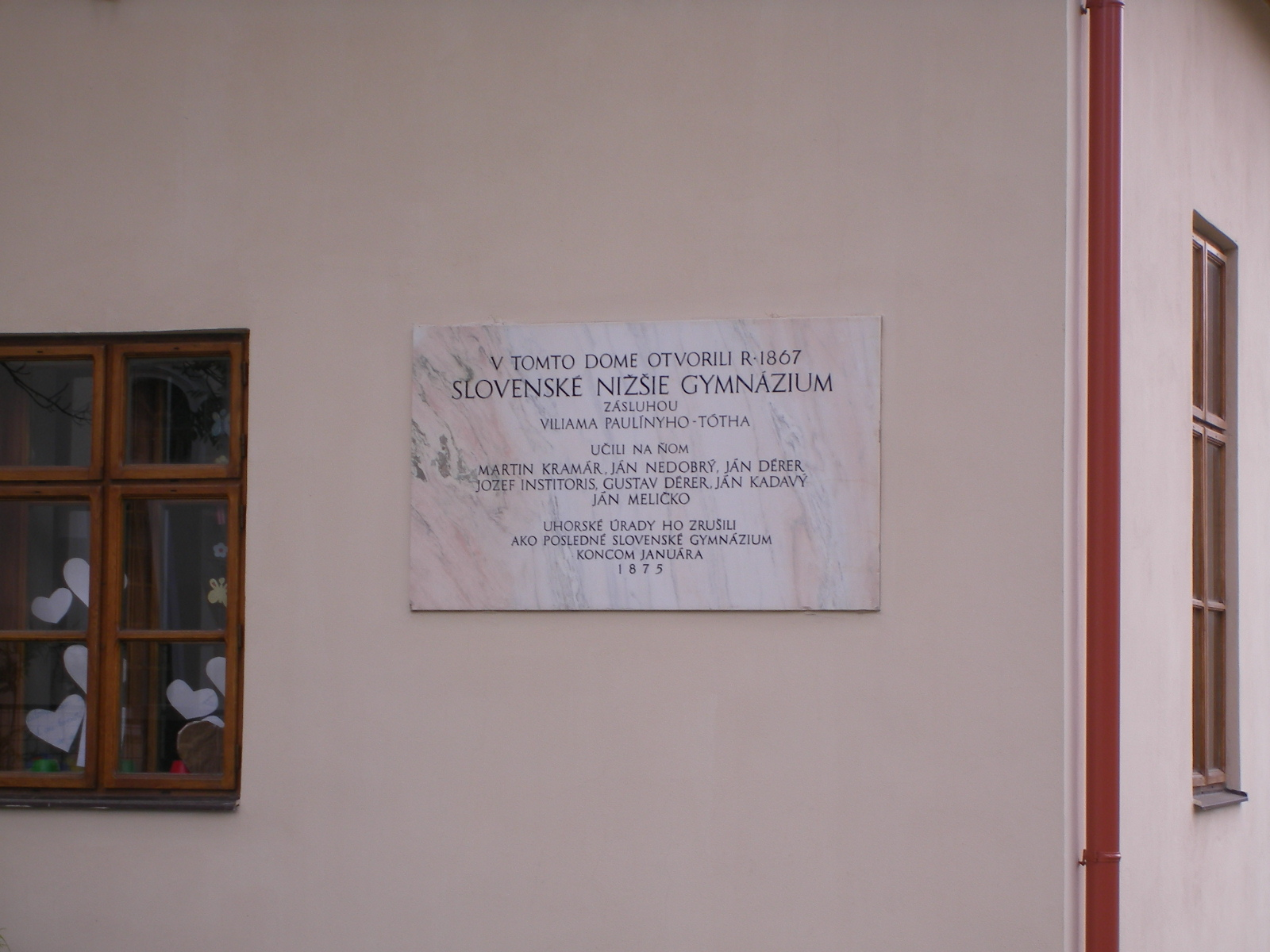 Martin